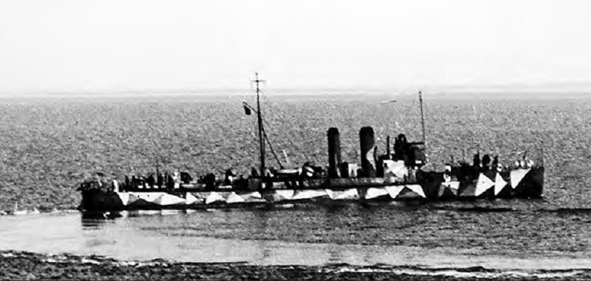 Royal Romanian escort torpedo boat Năluca.